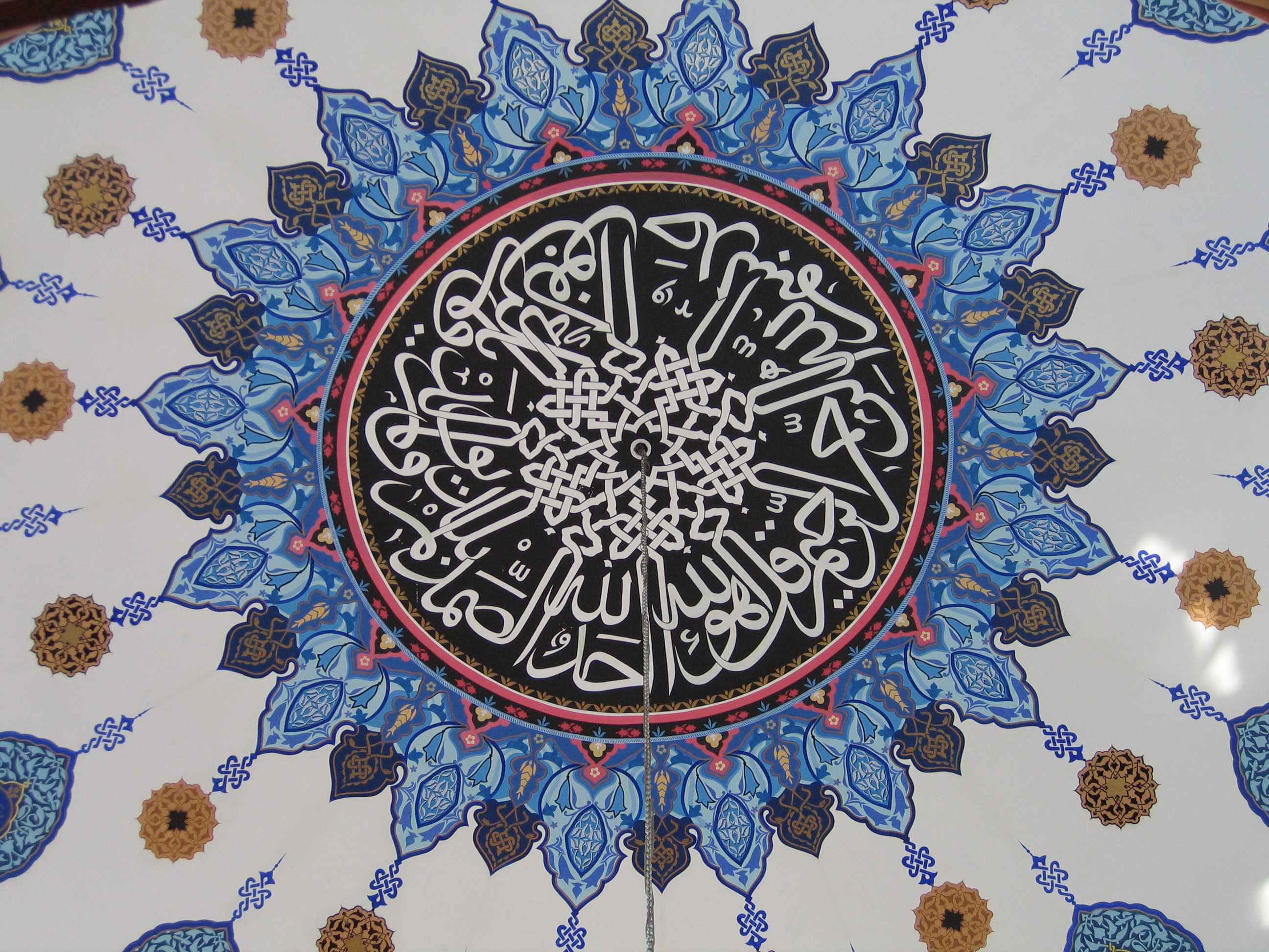 Yavuz Sultan Selim Mosque, Mannheim, Germany, cental ceiling ornament